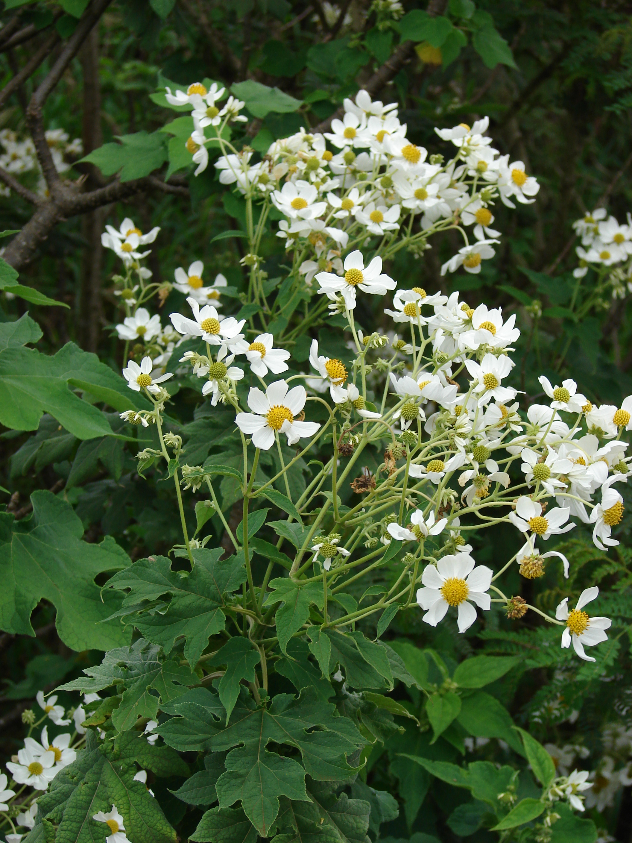 Montanoa hibiscifolia (flowers and leaves). Location: Kahoolawe, Upper Kaulana